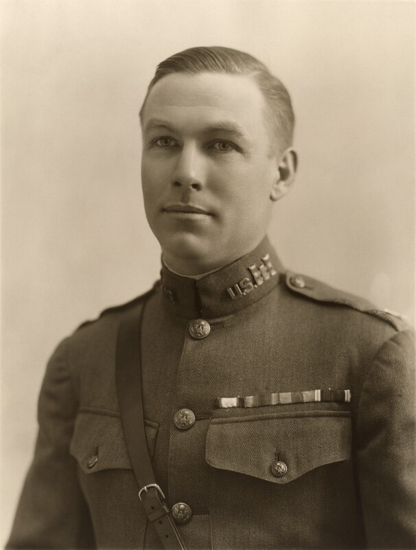 Oscar Nathaniel Solbert by Bassano Ltd bromide print, 1920s Purchased, 1996 Photographs Collection NPG x84811